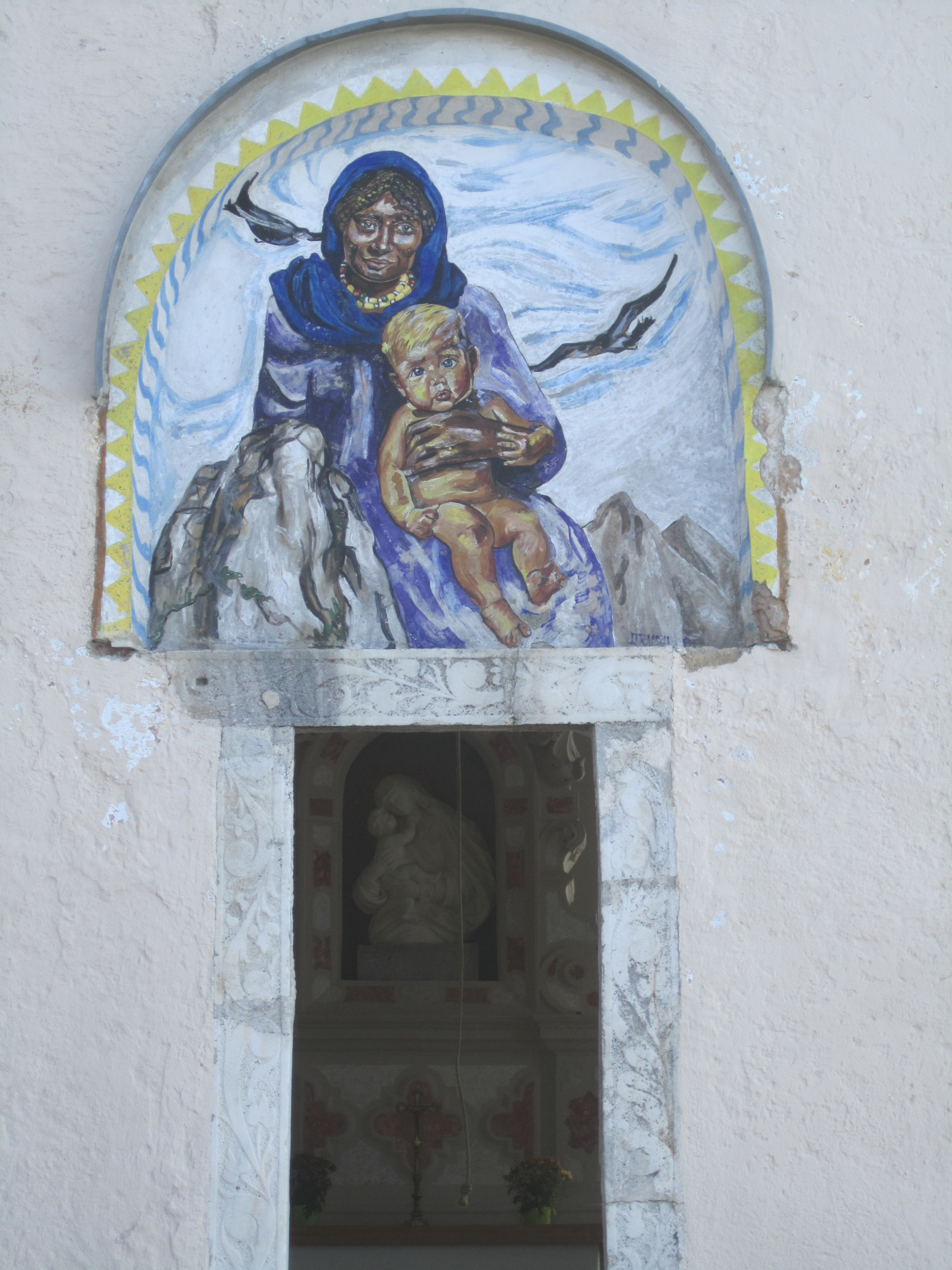 Slovenian Church on Dobrač/Dobratsch mountain, Mural by Helga Druml - 2